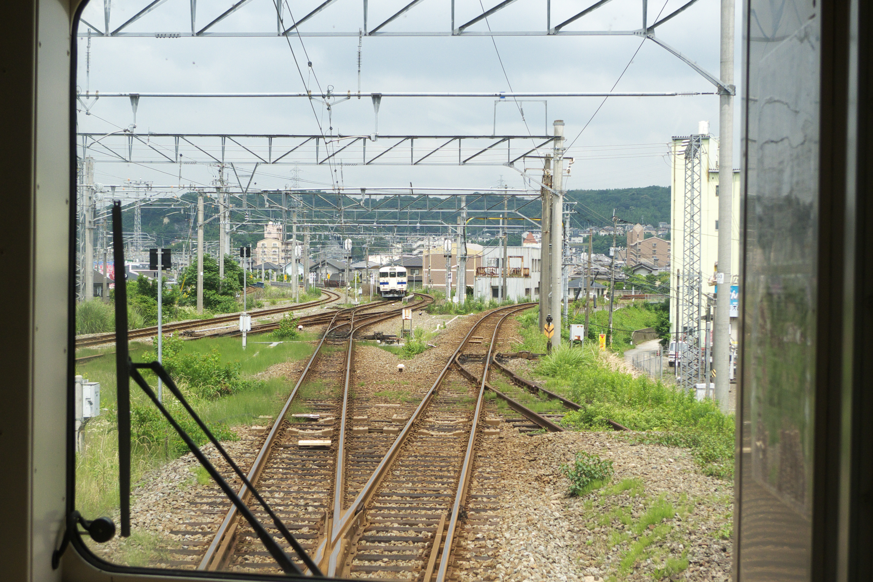 Shimogori Signal Base, junction of the Nippo Main Line and Hohi Main Line, in Oita City, Oita Prefecture, Japan